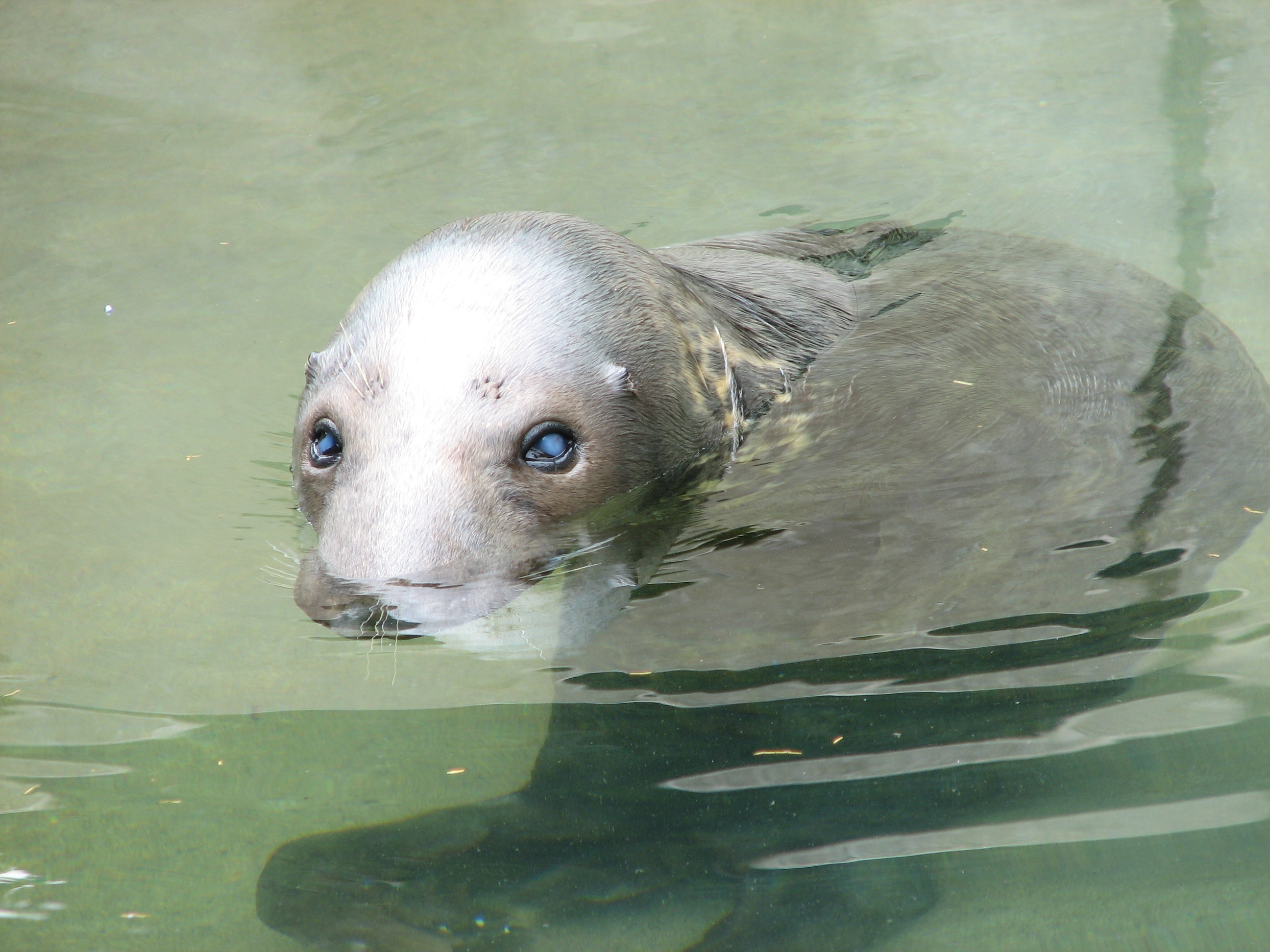 Grey Seal